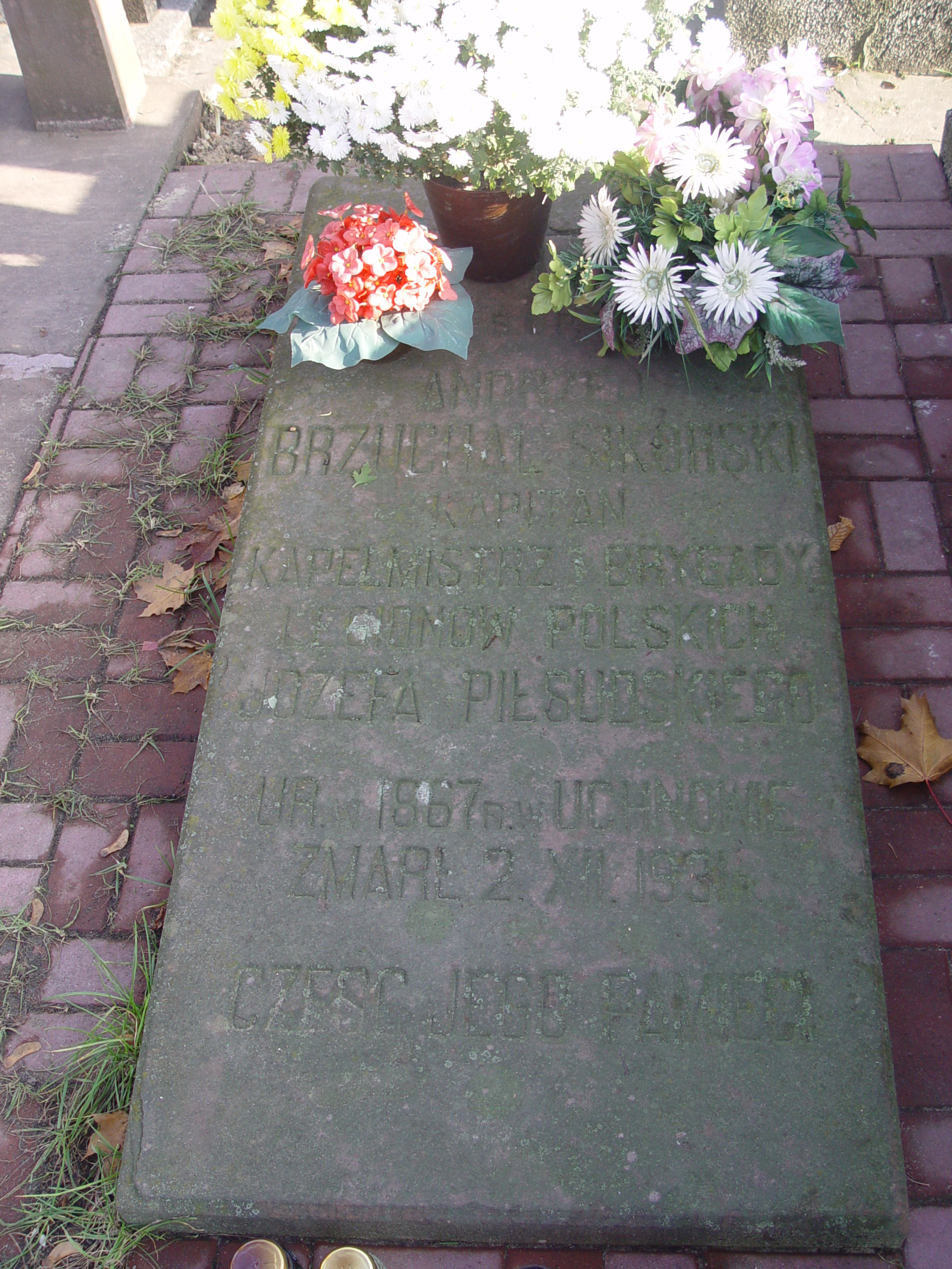 ANDRZEJ BRZUCHAL SIKORSKI - tomb